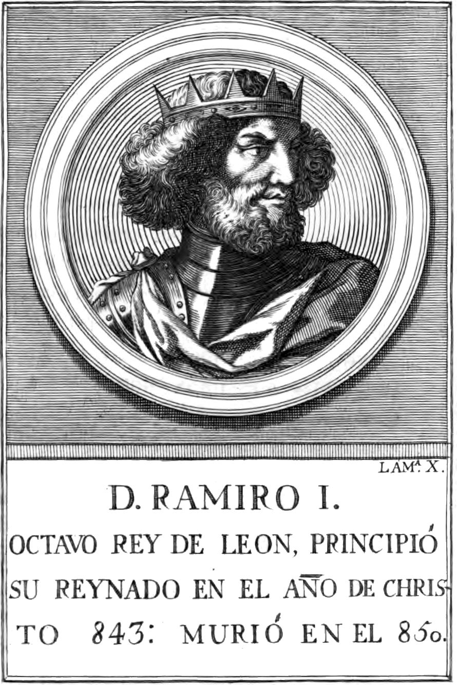 Ramiro I of Asturias